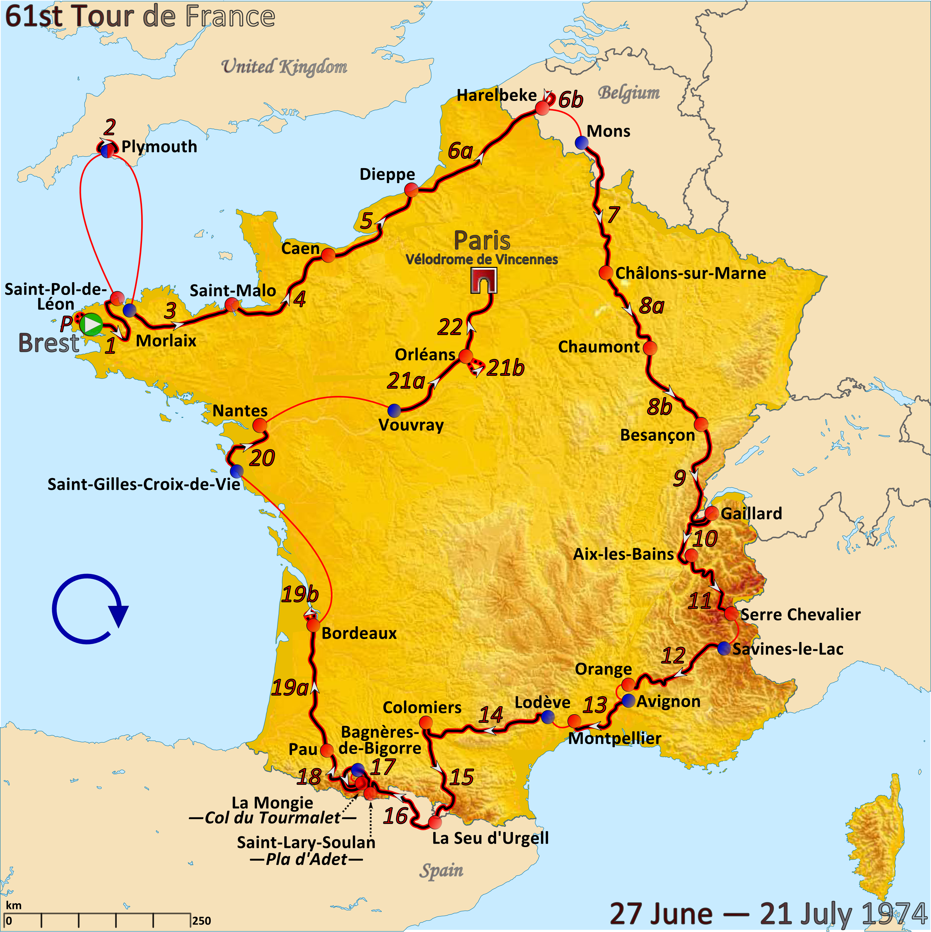 Map of the 1974 Tour de France created in Inkscape